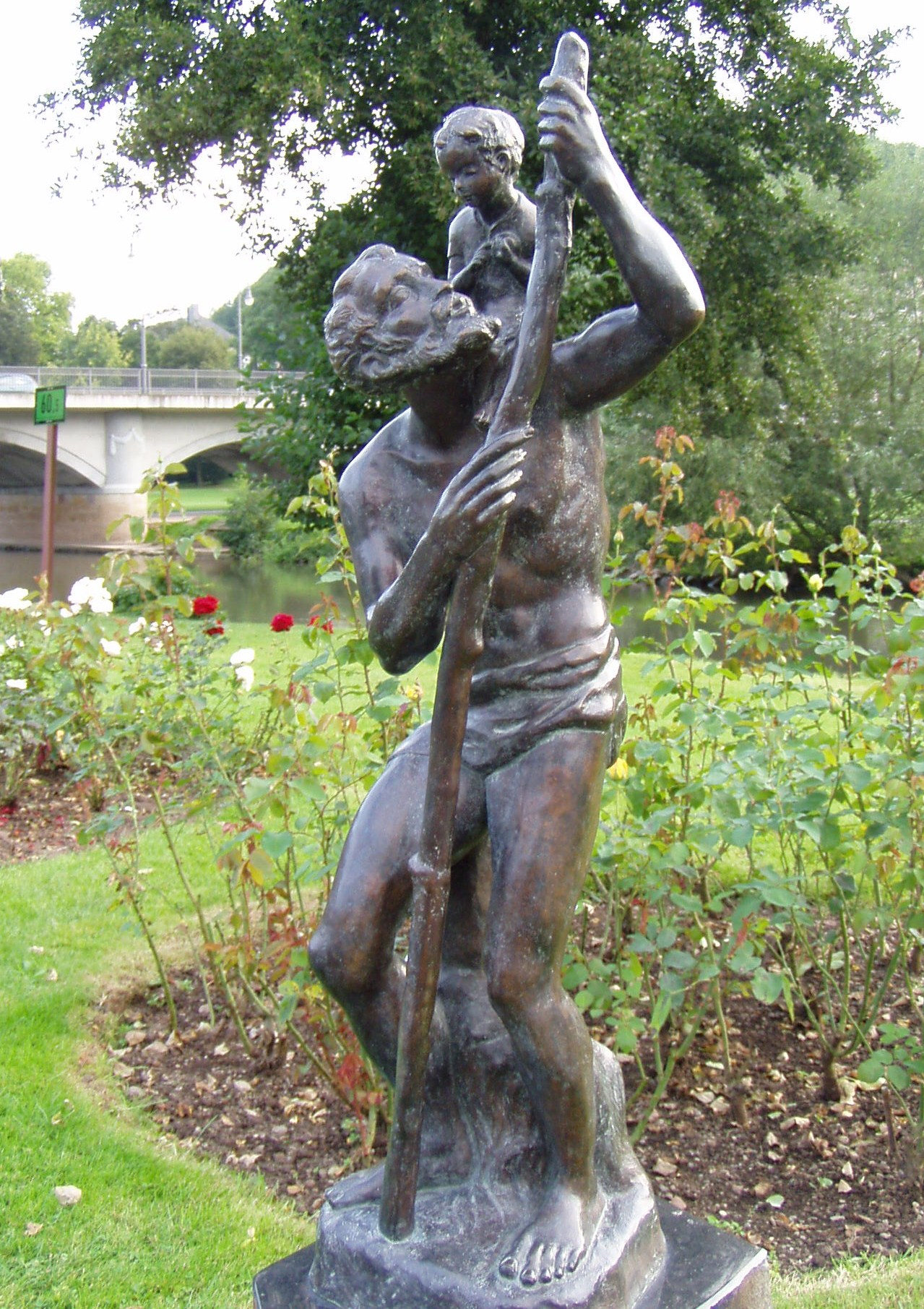 „Christophorus“ (1960ies, Bronze, 70 cm) by Helmut Bourger (1929-1989)